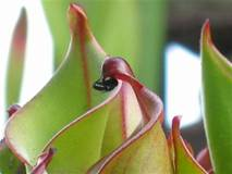 Heliamphora detail